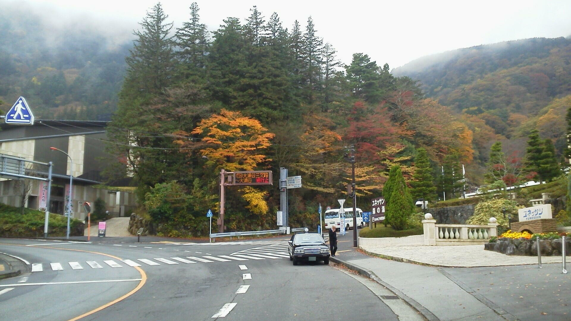 This place is Kowakidani intersection in Hakone, Ashigarashimo, Kanagawa, Japan.